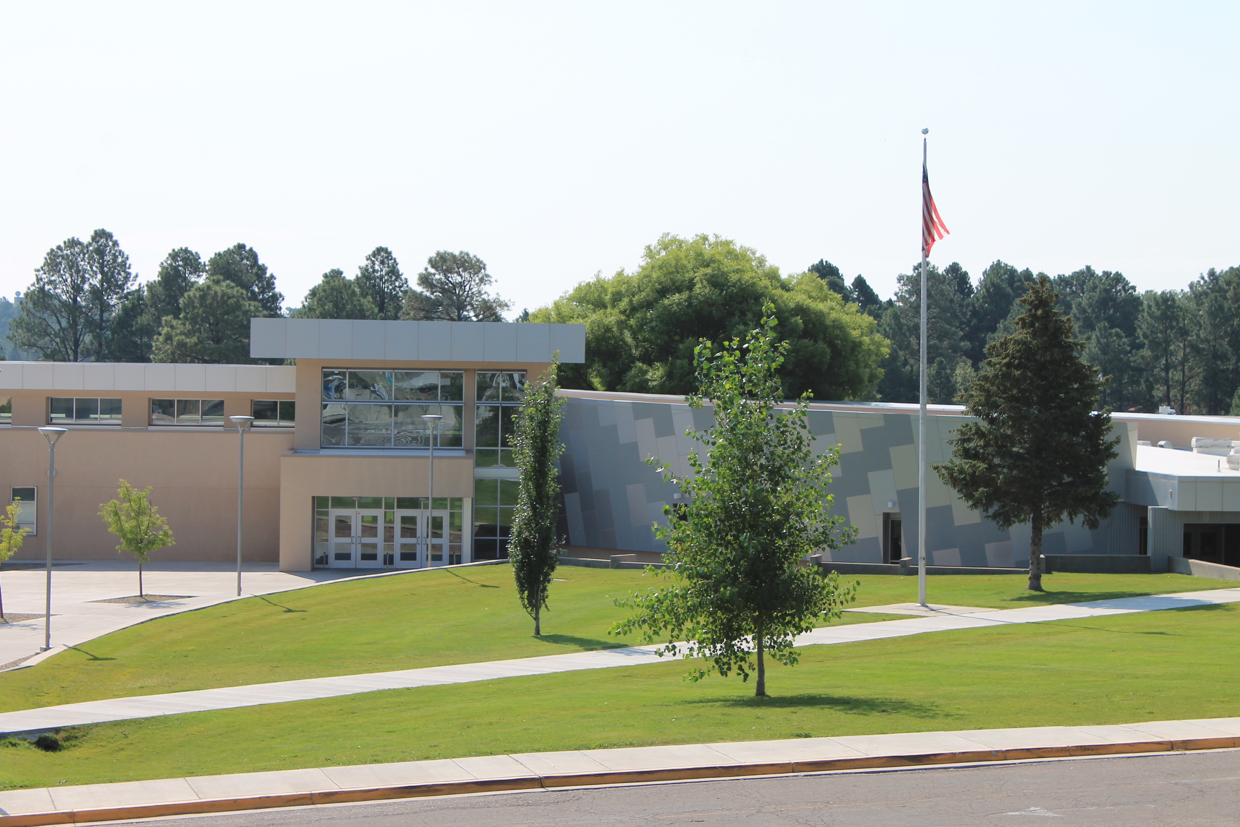 Image of the front of LAHS